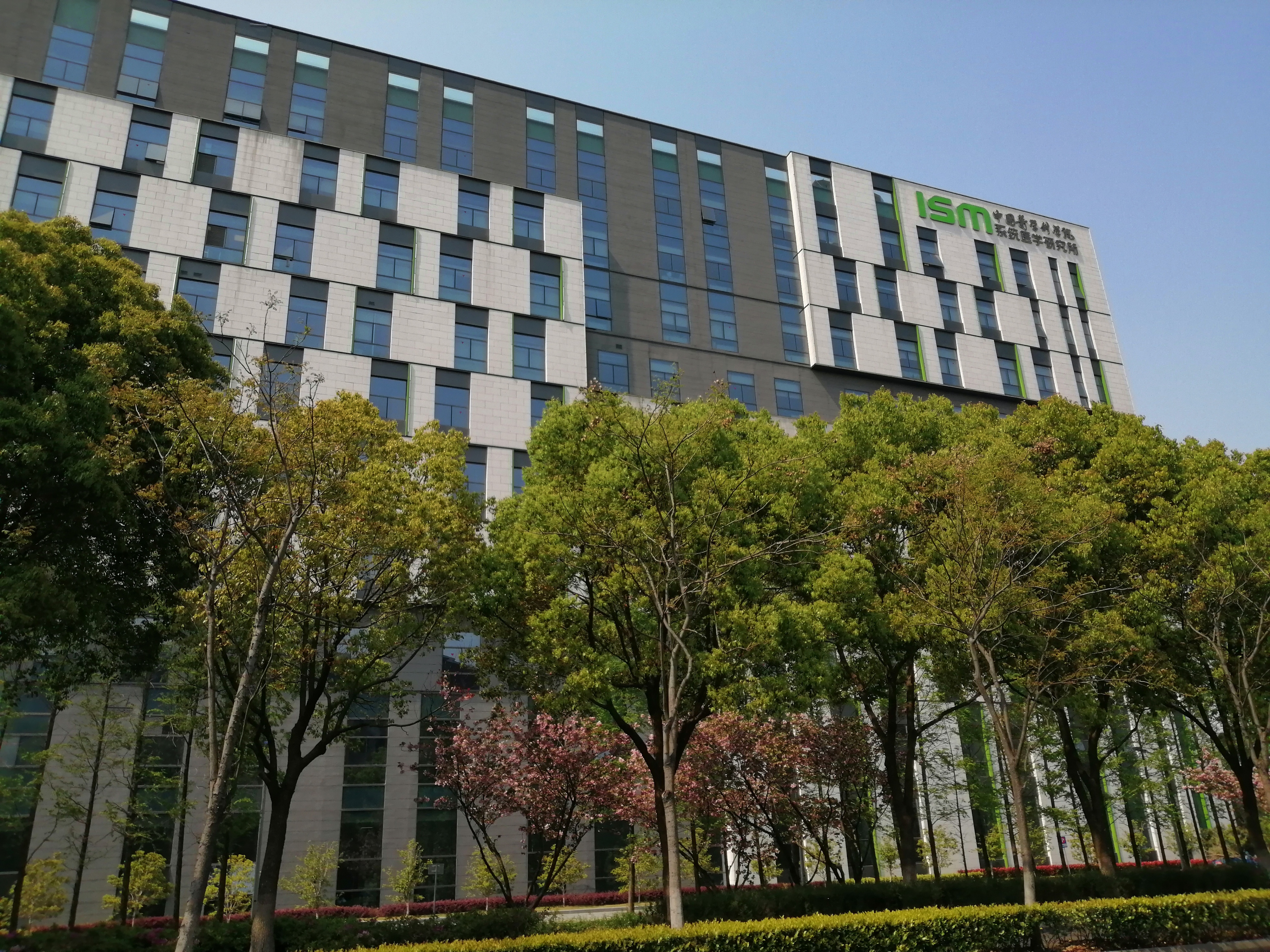 Located at Dushu Lake Science and Education Innovation District.